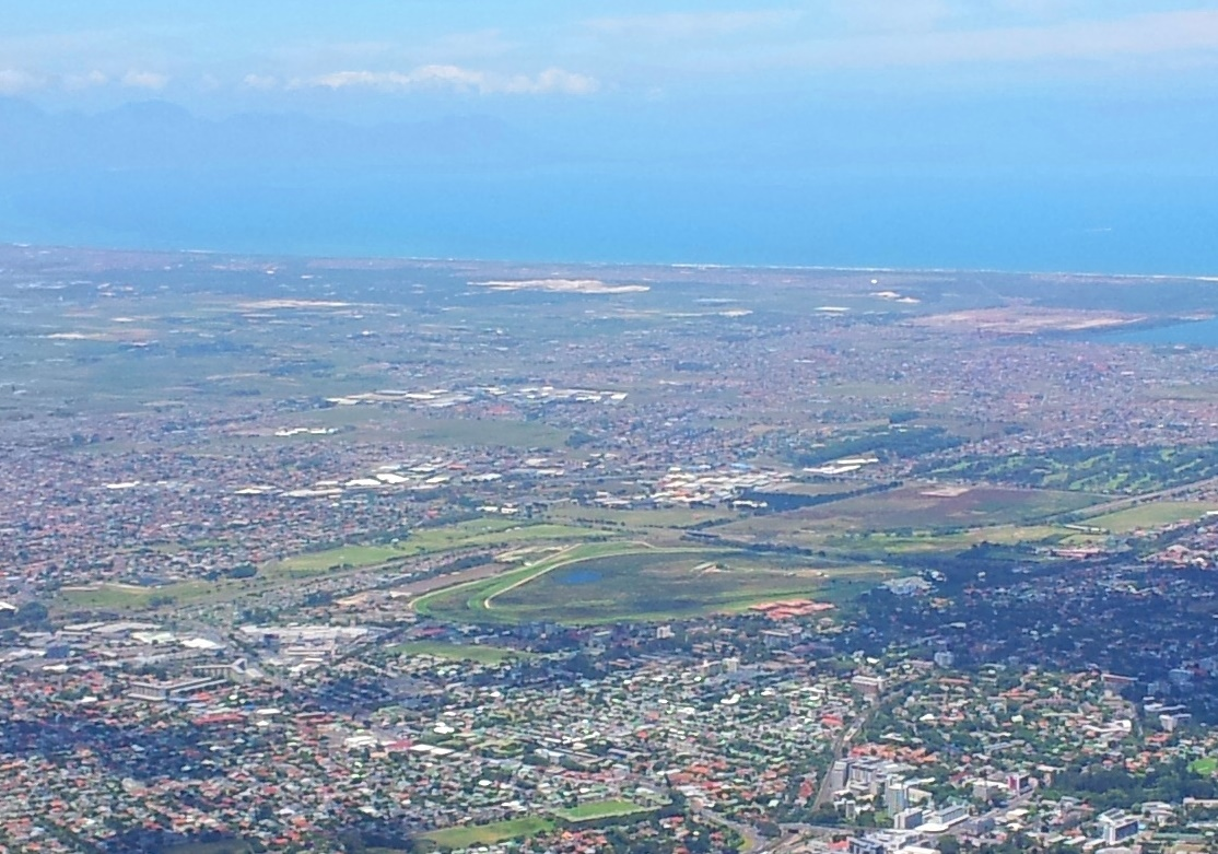 Kenilworth Racecourse - KRCA - viewed from Devils Peak - Cape Town